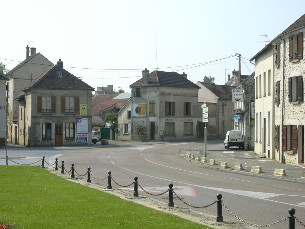 Main Street of Rebais, Seine-et-Marne, France